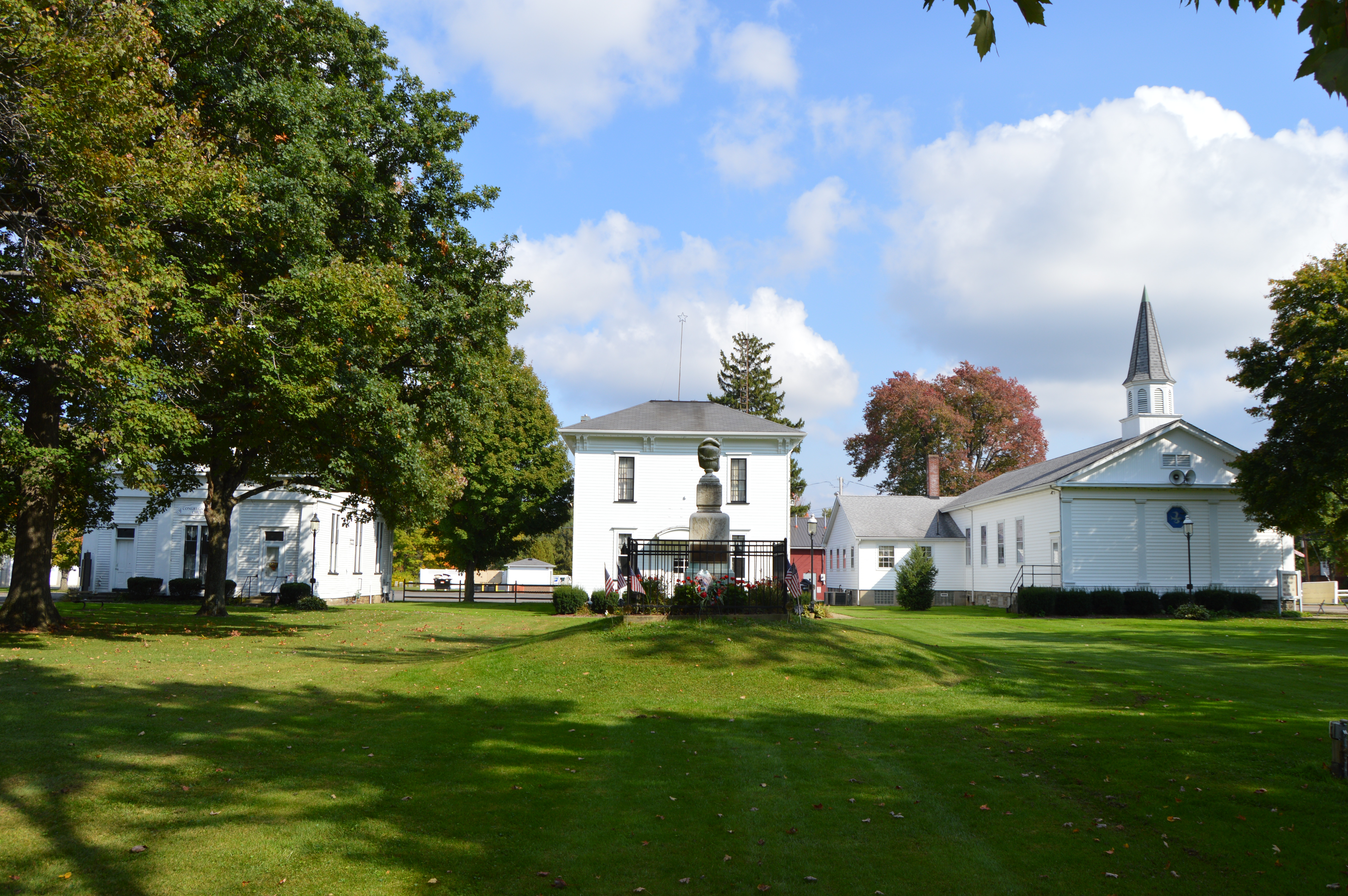 Overview of the town green in Bristolville, Ohio, United States. Buildings, L-R: Bristolville Congregational Church, built 1843 Bristol Town Hall Bristoville United Methodist Church, built 1847 In the middle is the town's Civil War monument, placed in 1863.